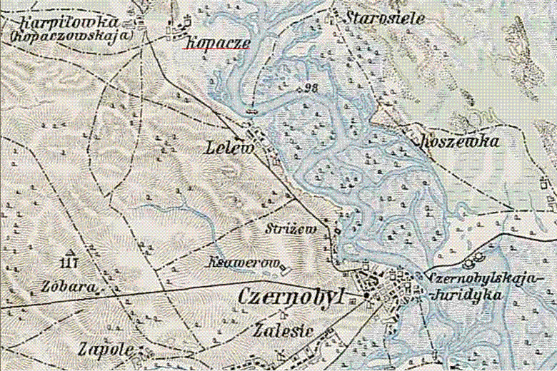 The area around Czarnobyl and Kopacze on a military Austrian map